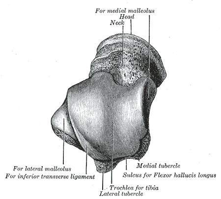 Left talus, seen from above, with anterior side of the bone at top of image.